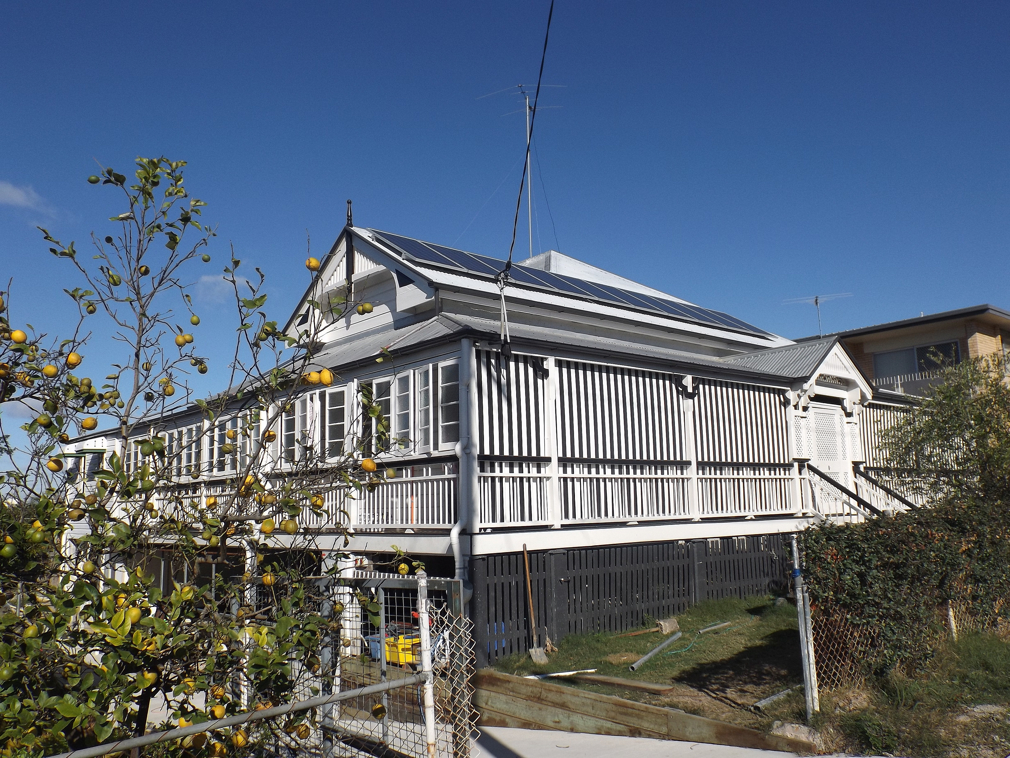 Photo of Killila residence at Lutwyche, Brisbane, Queensland, Australia.